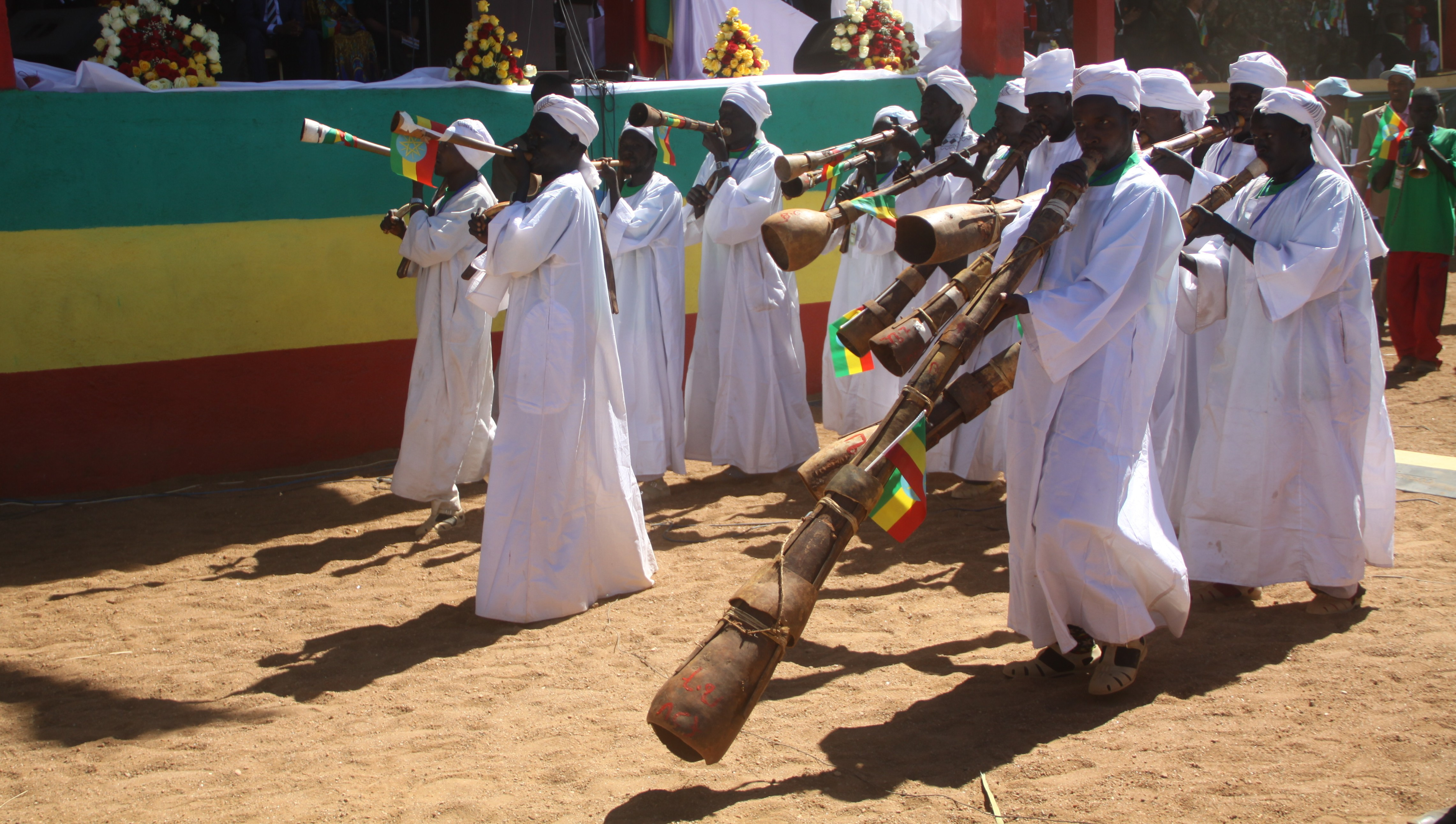 Benishangul gumuz people with their musical instrument. The people are lived in west Ethiopia of Benishangul gumuz region. This is an image of Cultural Fashion or Adornment from Ethiopia